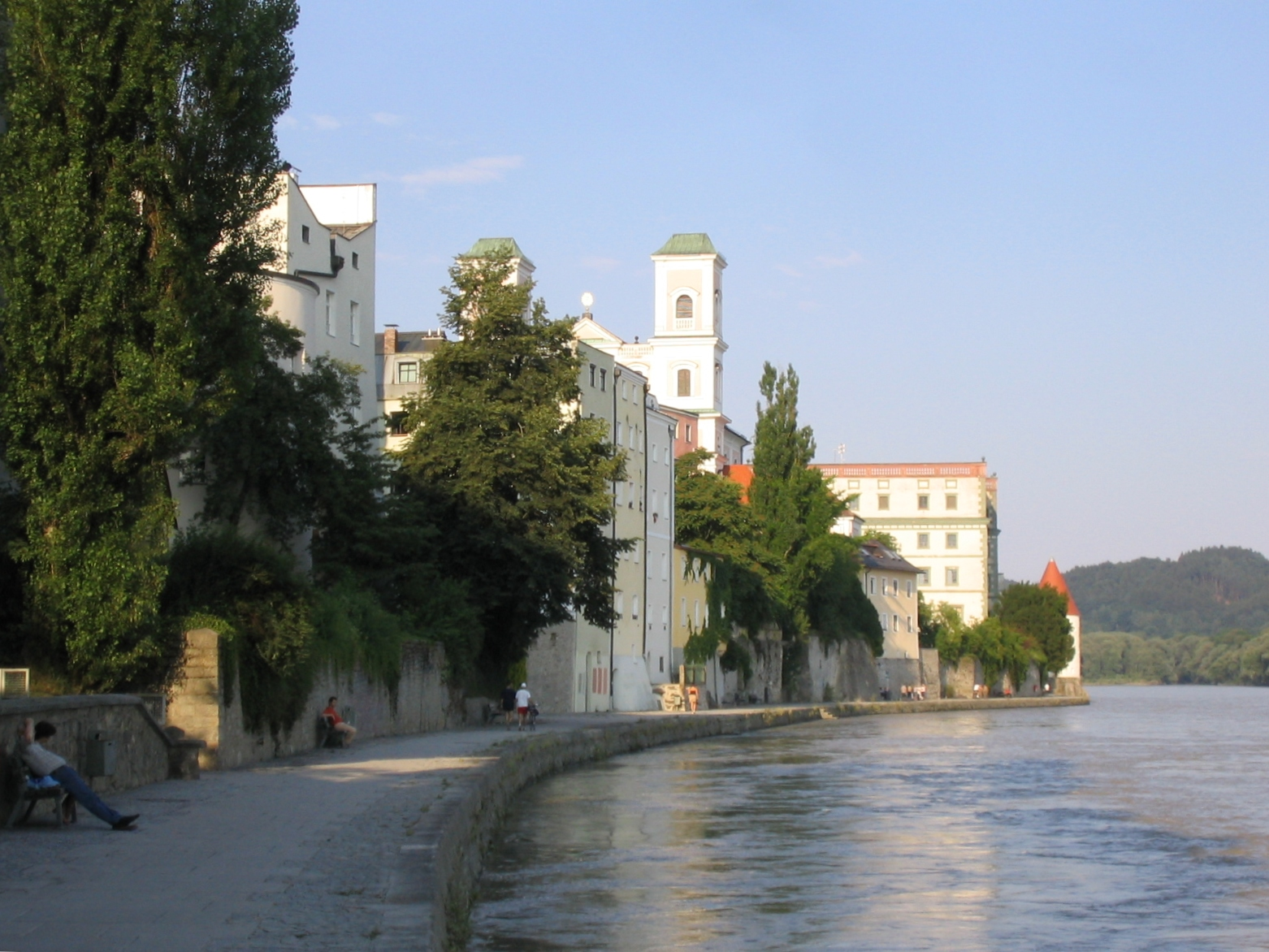 Passau, Innpromenade towards Ortspitze